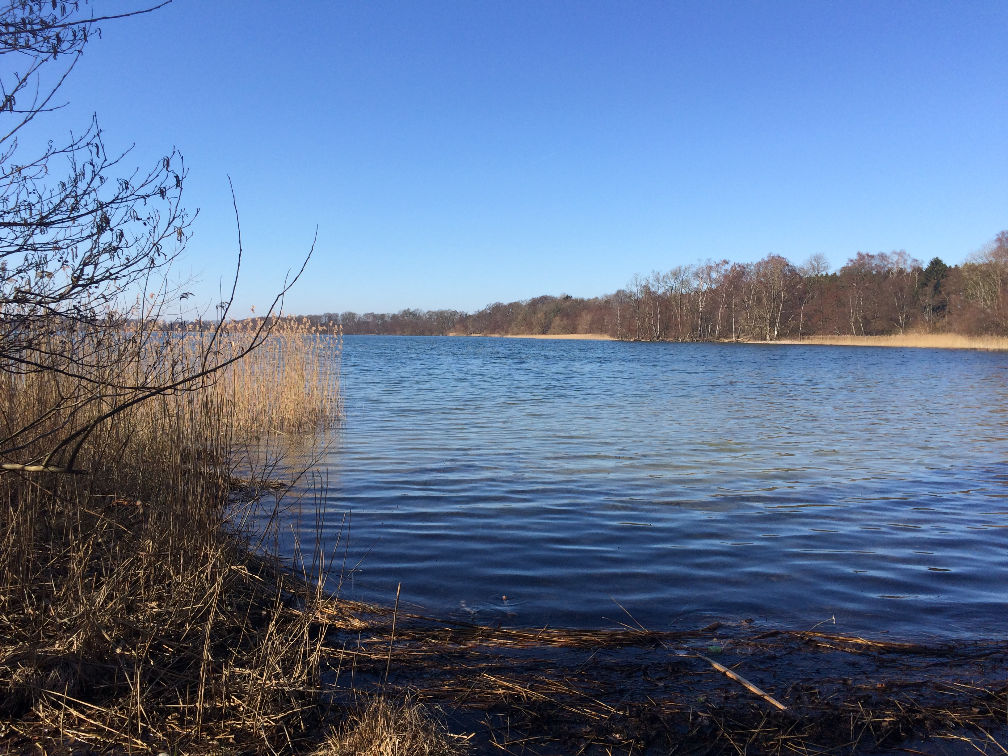 Buresø - Lake in Zealand, Denmark